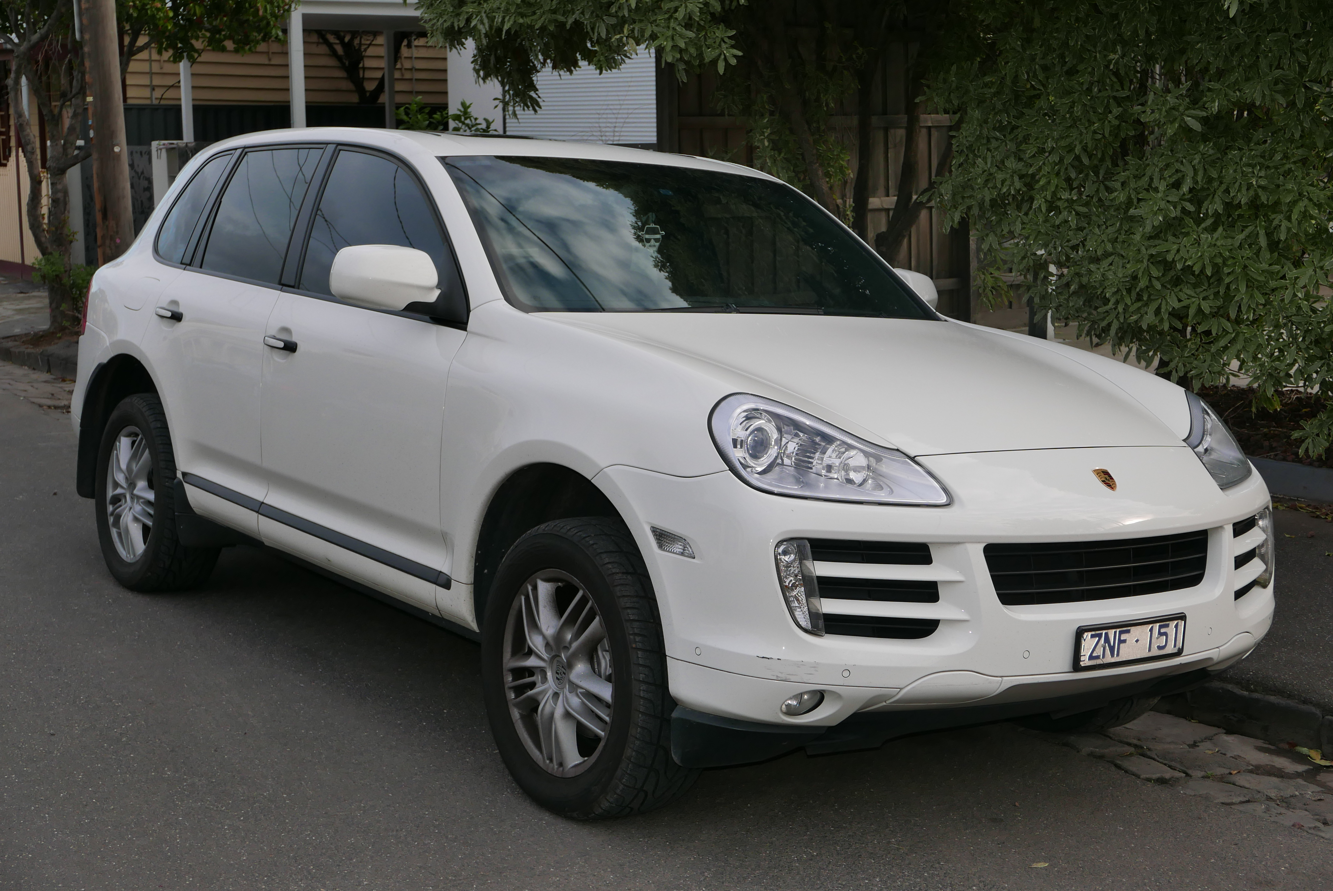 2009 Porsche Cayenne (9PA MY09) 3.6 wagon. Photographed in Collingwood, Victoria, Australia. Vehicle registration enquiry results Jurisdiction Victoria Registration ZNF151 Chassis code WP1ZZZ9PZ9LA07414 Engine code 63908625 Compliance date 2009-01 Year of manufacture 2009